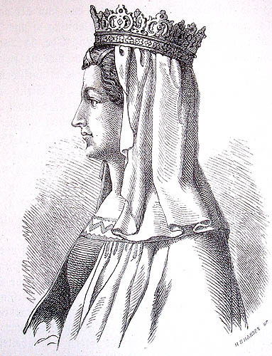 Queen Margaret I of Denmark (1353 – 28. oktober 1412).